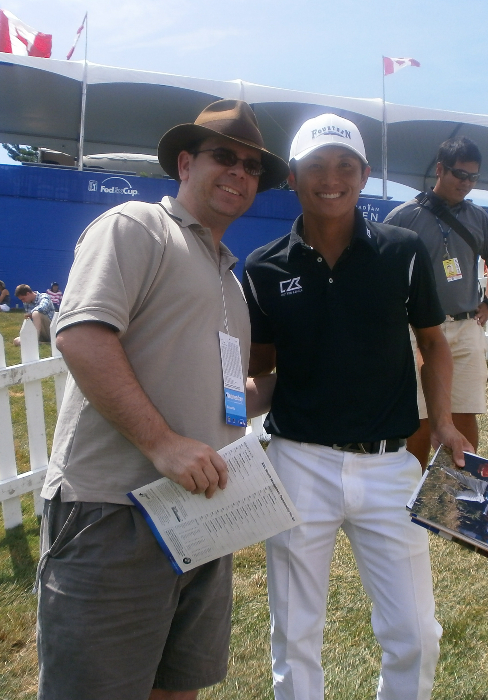 Taken at the 18th hole, on Wednesday. The day before the start of the Bell Canadian Open at the Hamilton Golf and Country Club, Ontario.